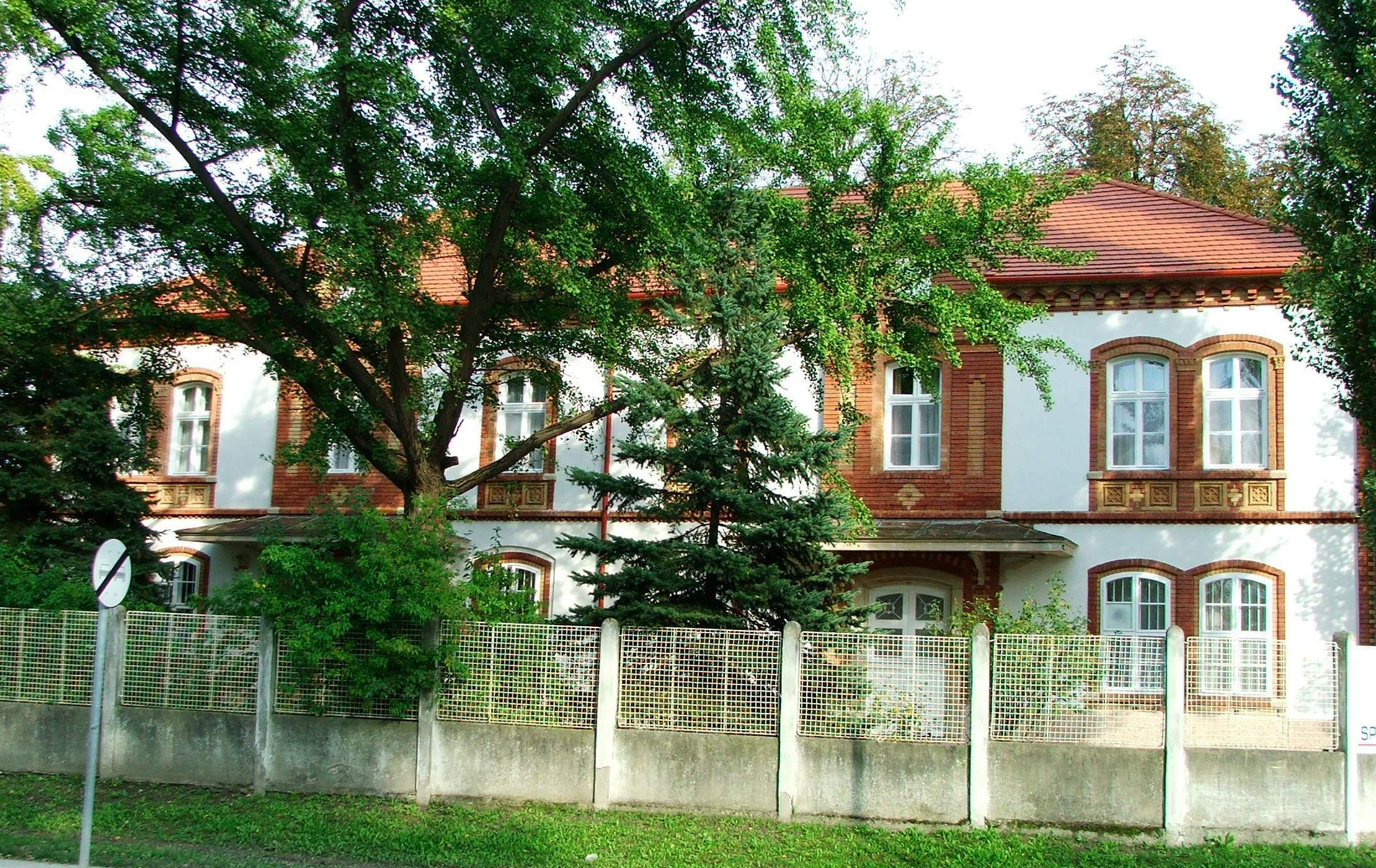 Former building of the Agencia Ship Co. in Esztergom. 19th century. Architect:János Prokopp